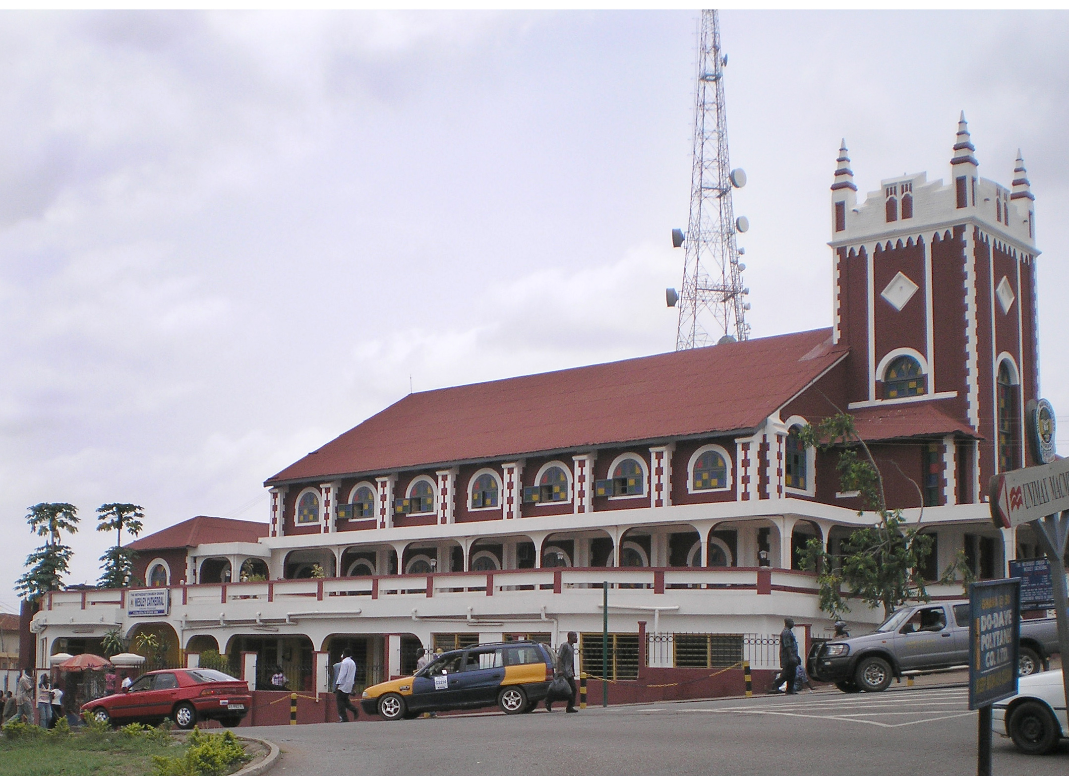 The Wesley Methodist Cathedral in downtown Kumasi, Ghana